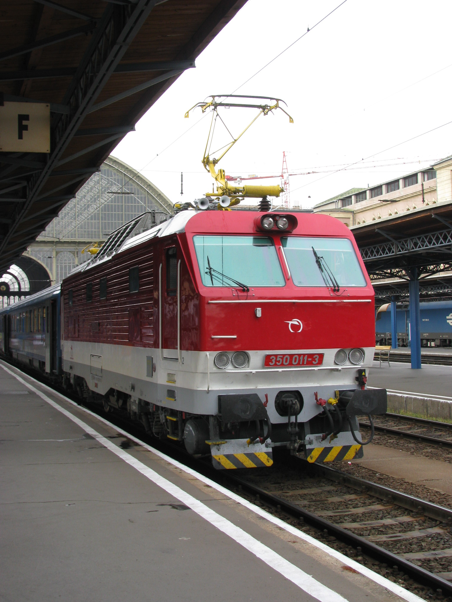 ČSD ES 499.0 locomotive with Hungaria EuroCity (Budapest-Berlin) at Keleti railway station, in Budapest, Hungary